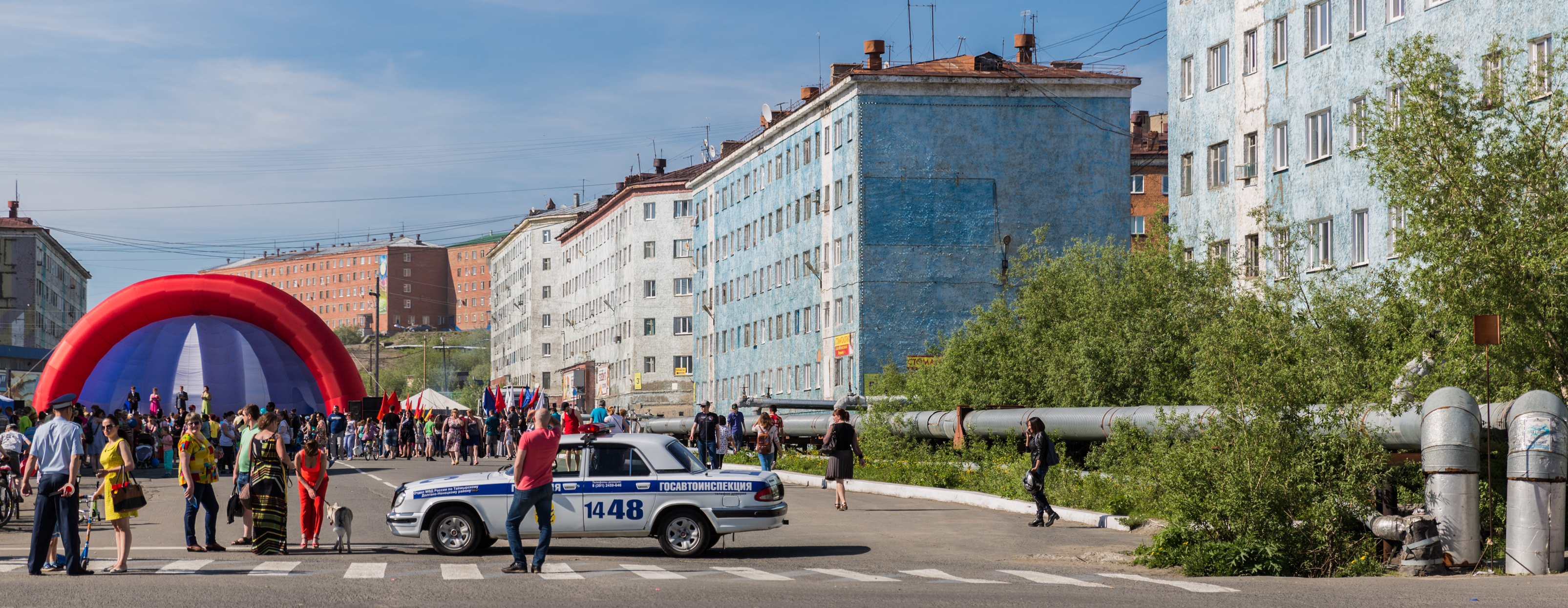 Town Day. 349 years old Dudinka town.